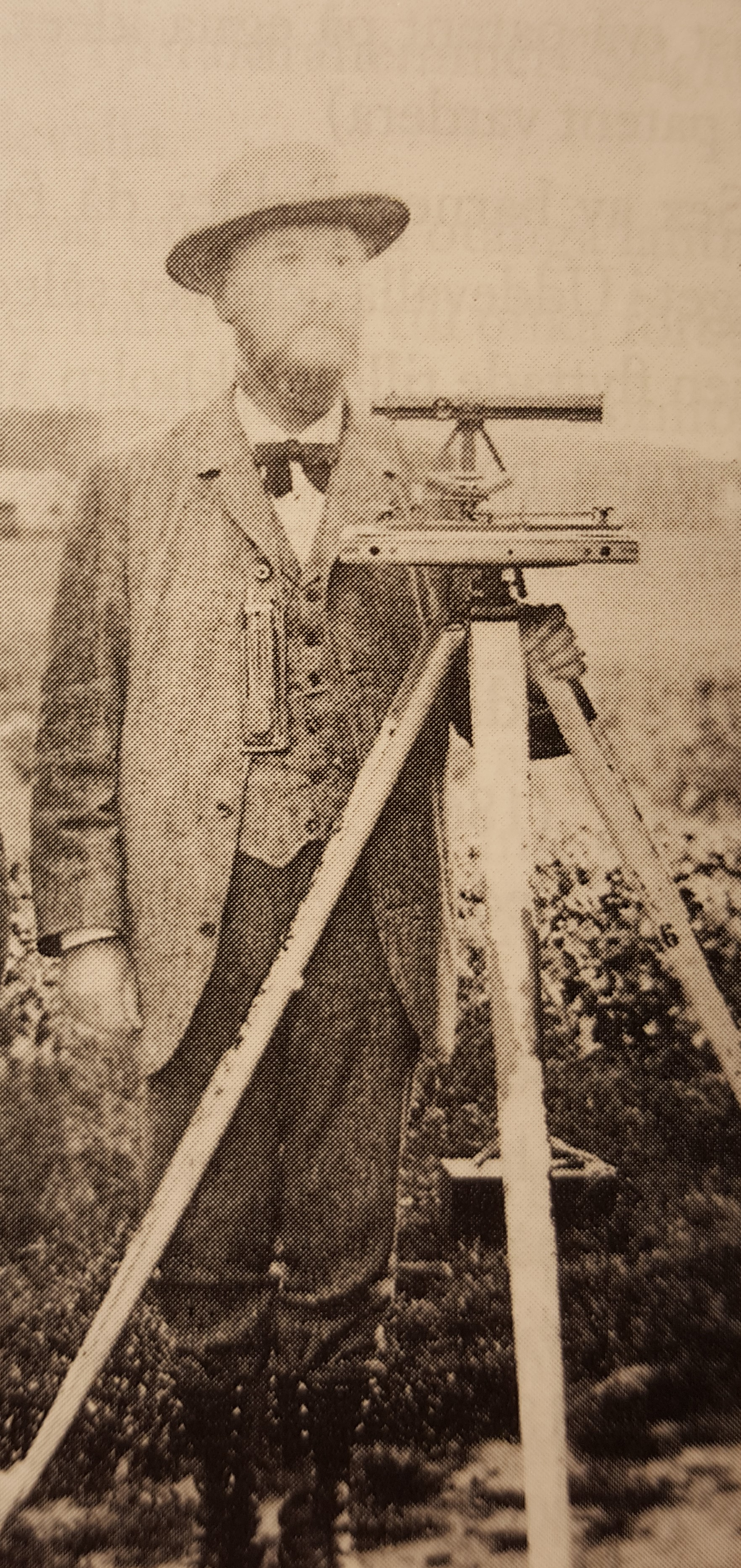 Jonas Patrik Ljungström (1827-1898), Swedish cartographer, with distance tub land surveying equipment (1877).